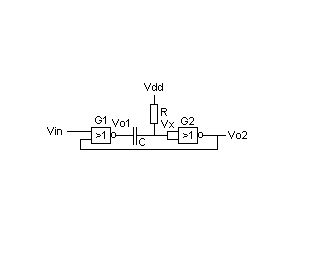 Simple mono stable multivibrator